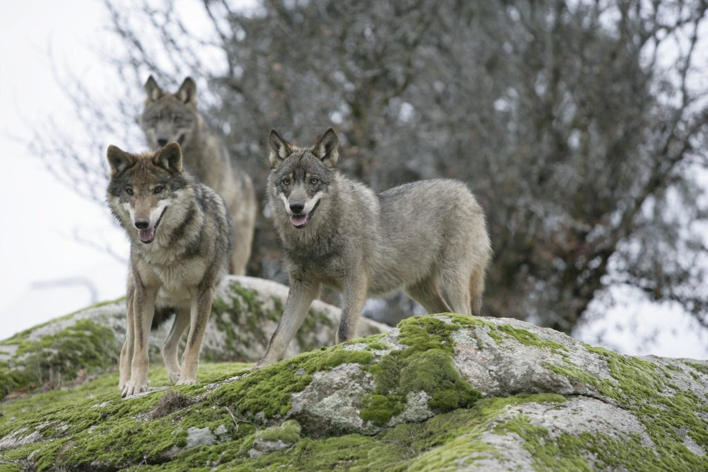 In the image we can clearly see the white stripes in the snouts and the black marks in the front legs, two of the characteristics of the sub. signatus